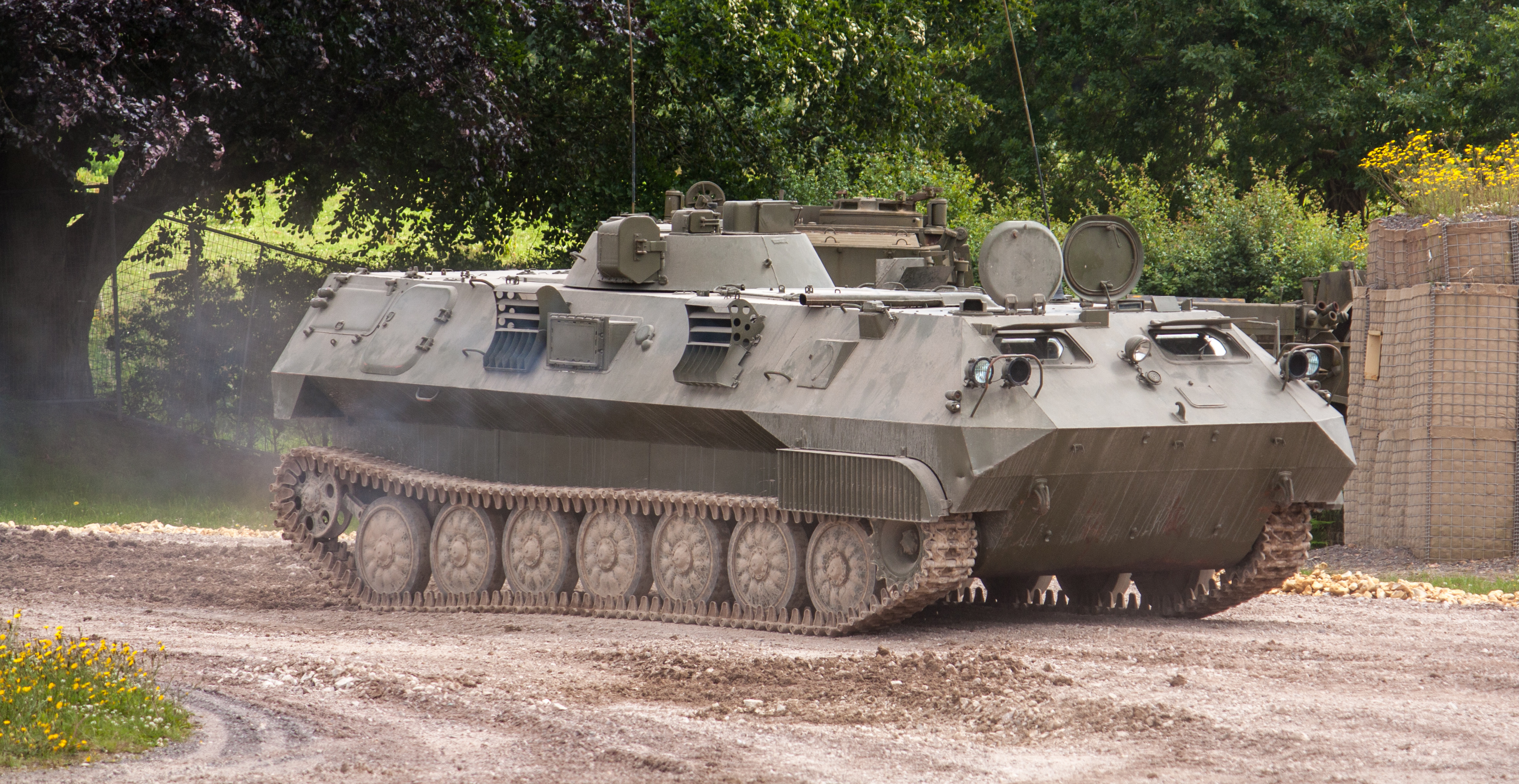 ACRV M 1974(2) IV15